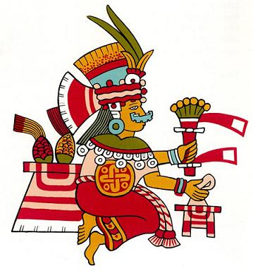 Chicomecoatl, Goddess of Agriculture